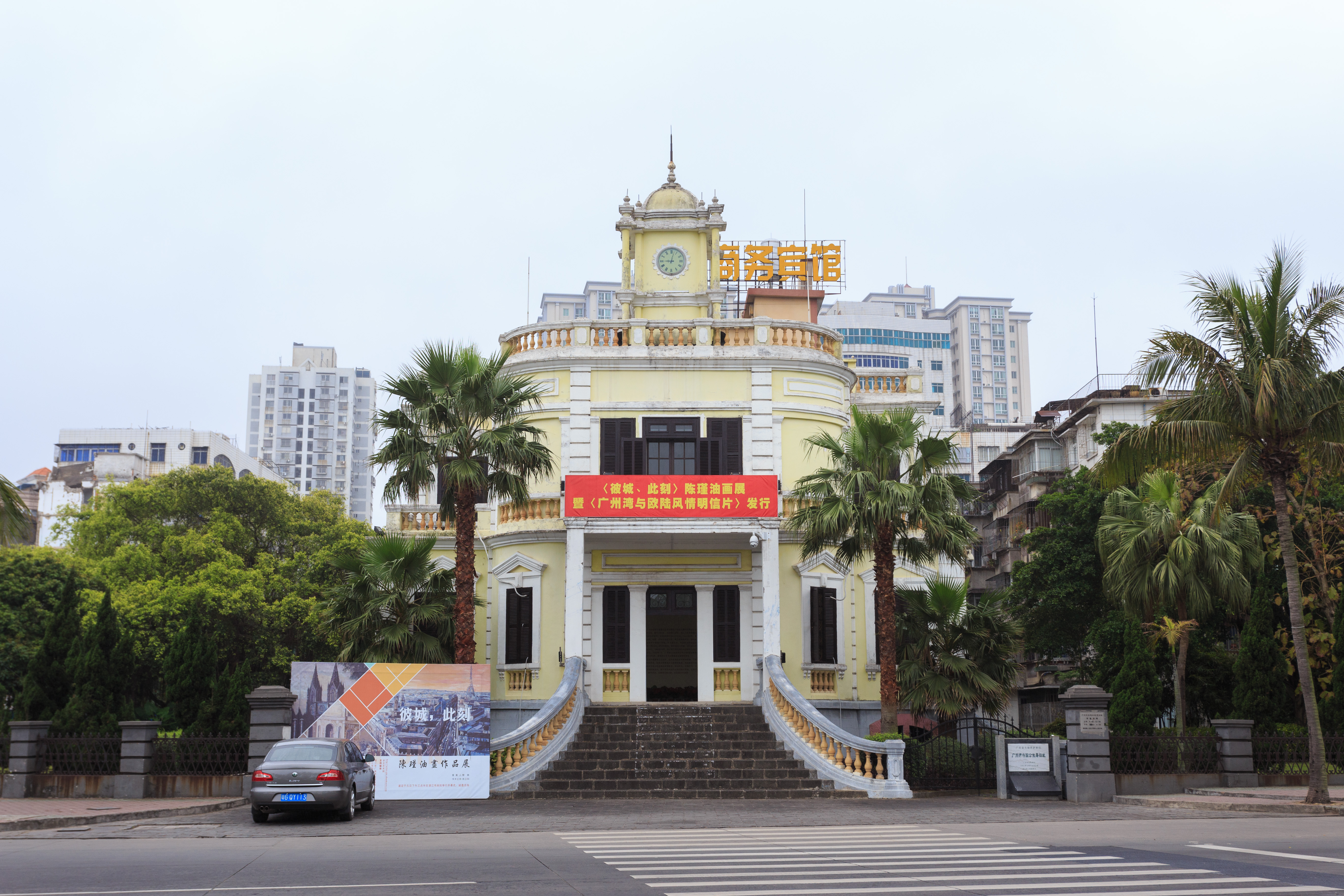 Former site of the French Ministerial Department and Headquarters of the French Army